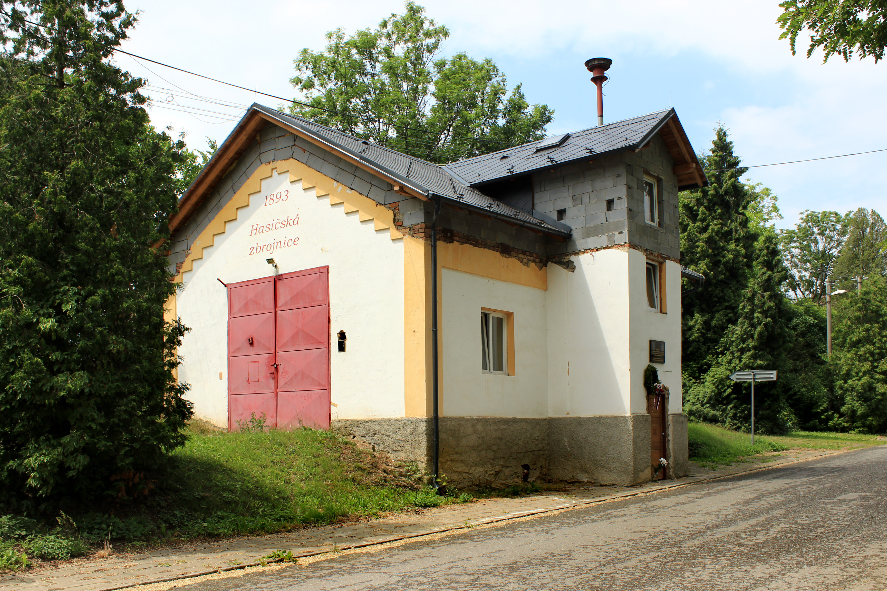 Fire house in Sádek, part of Velké Heraltice, Czech Republic.